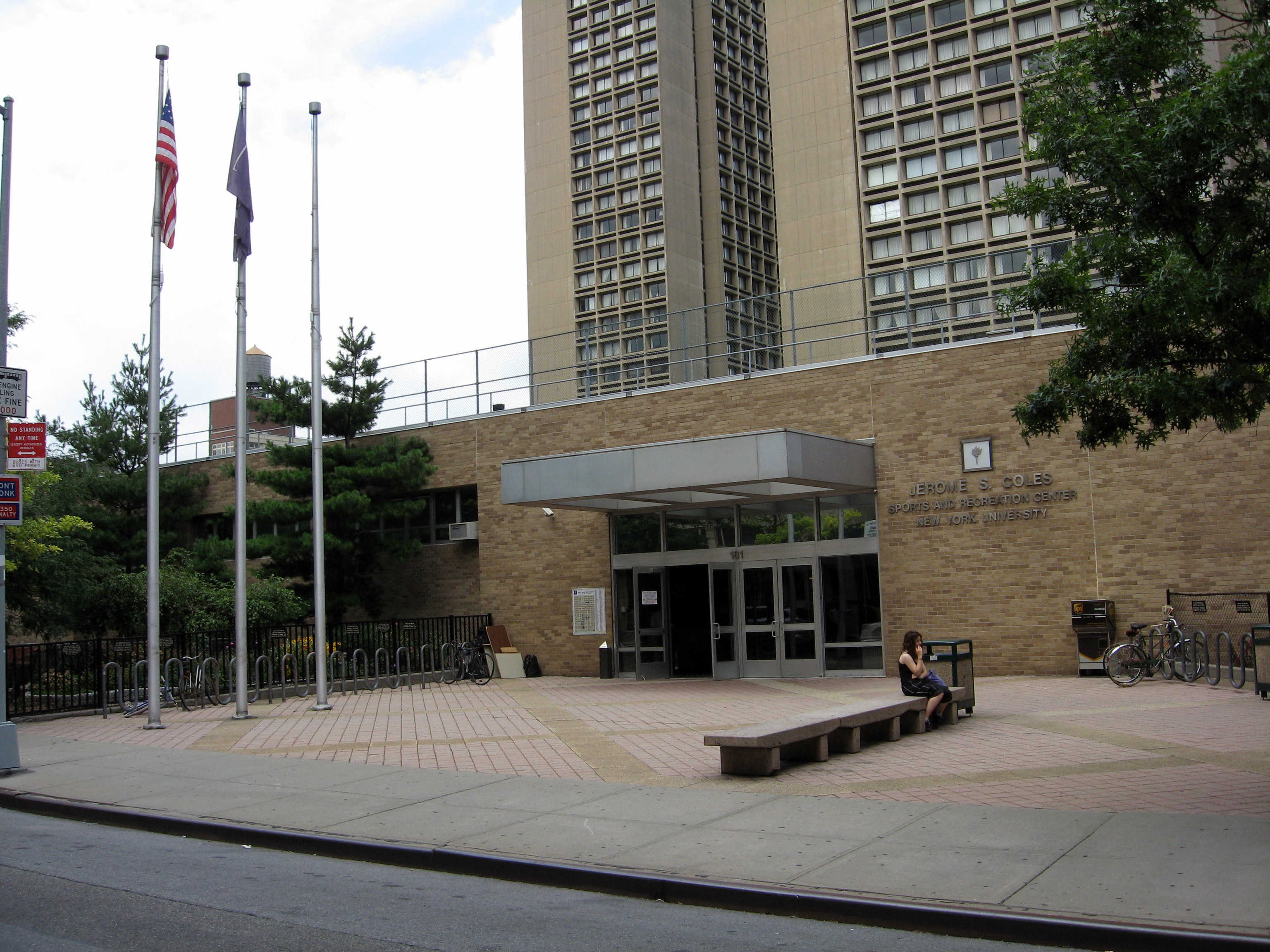 The Cole Sports and Recreation Center, at New York University in New York.